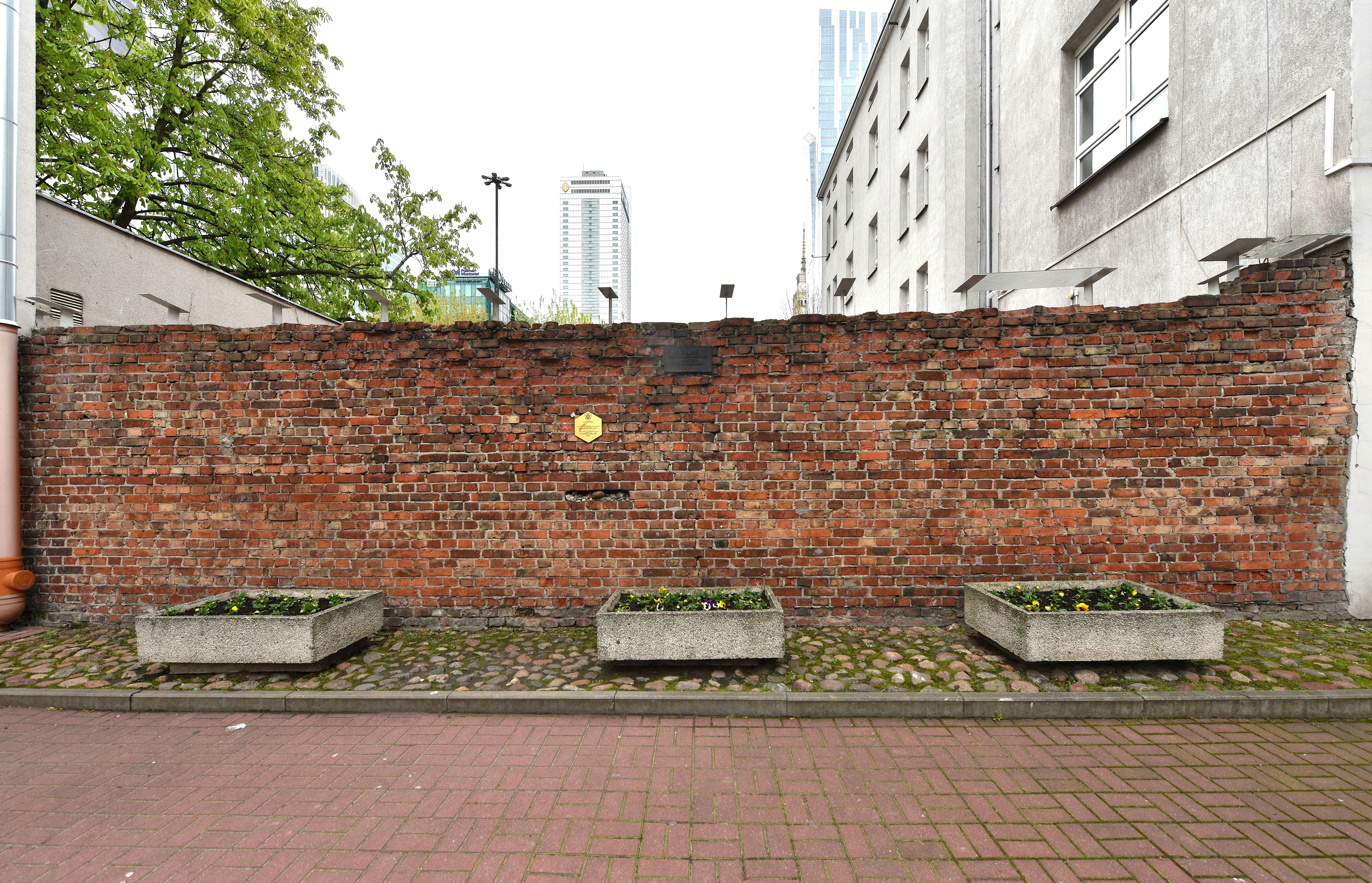 A remaining piece of the ghetto wall at 55 Sienna Street in Warsaw